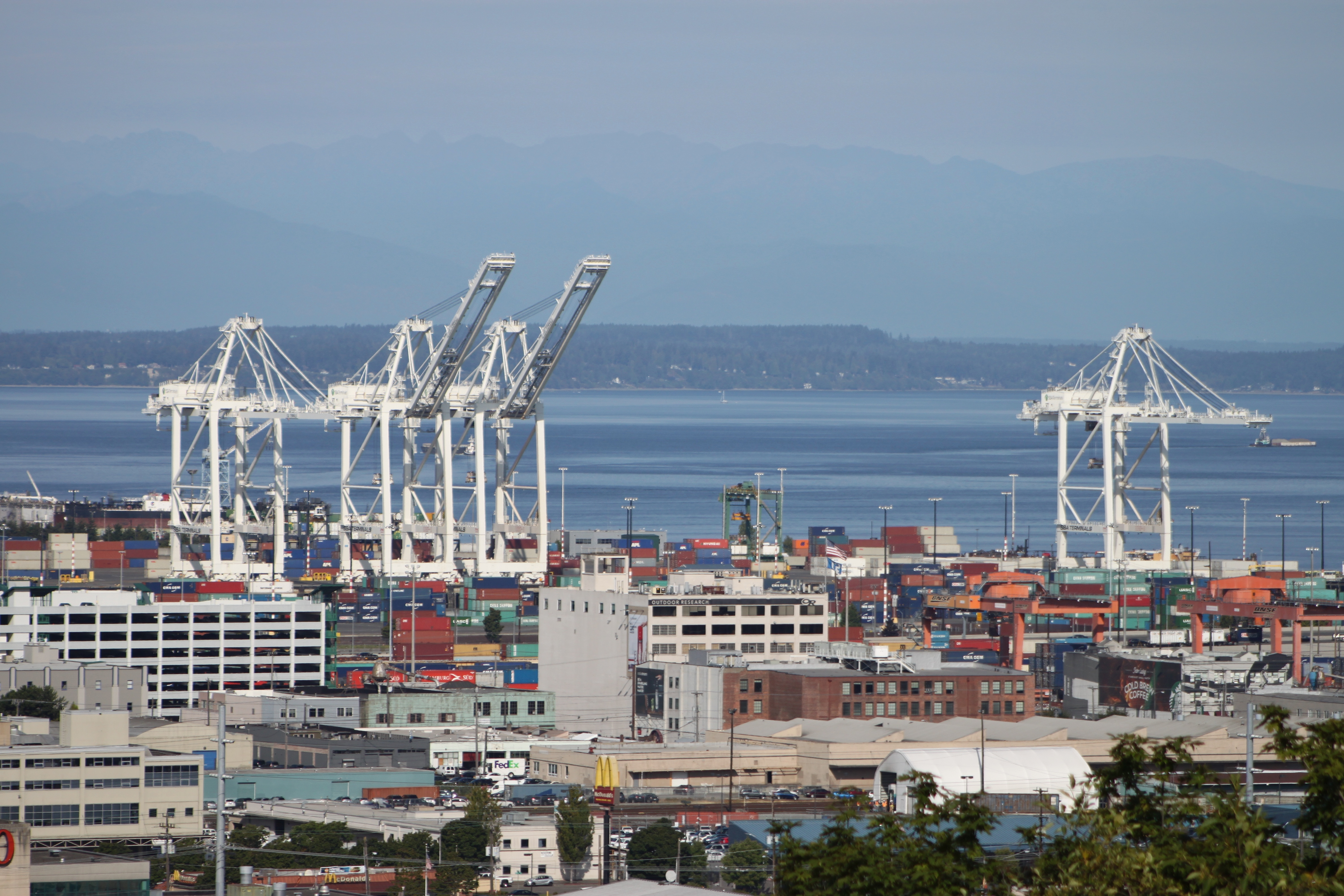 Cargo cranes at Terminal 46, part of the Port of Seattle, viewed looking west from the 12th Avenue South Viewpoint on Beacon Hill. The SoDo neighborhood can be seen in the foreground.